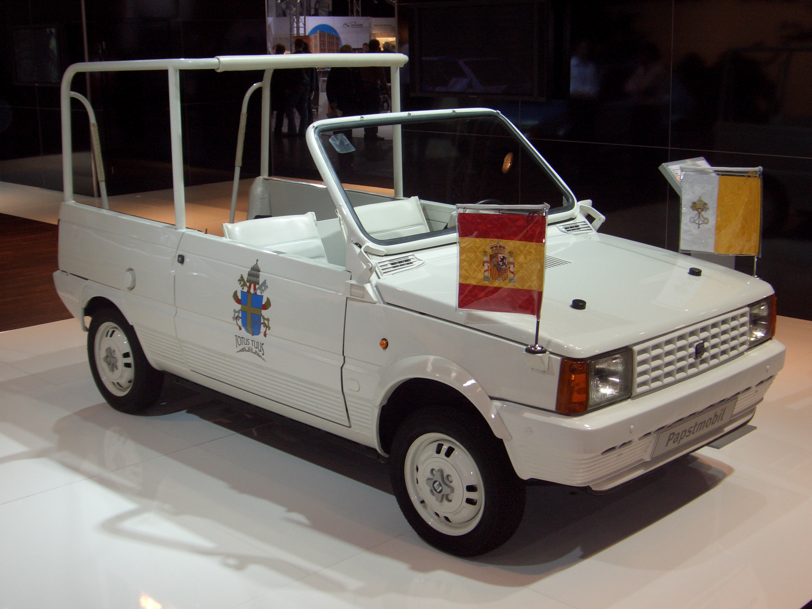 SEAT Panda (1980-1985), Popemobile used by John Paul II. when visiting Barcelona / Spain 1982, seen at TECHNO CLASSICA (Essen, Germany) at SEAT stall